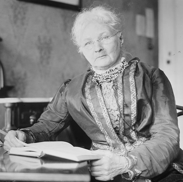 Mother Jones, [at desk facing left].